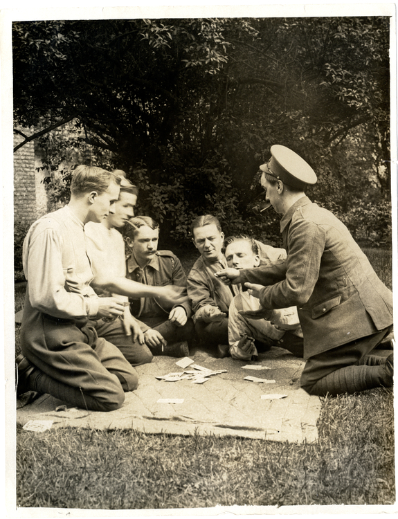 British soldiers at play [France].